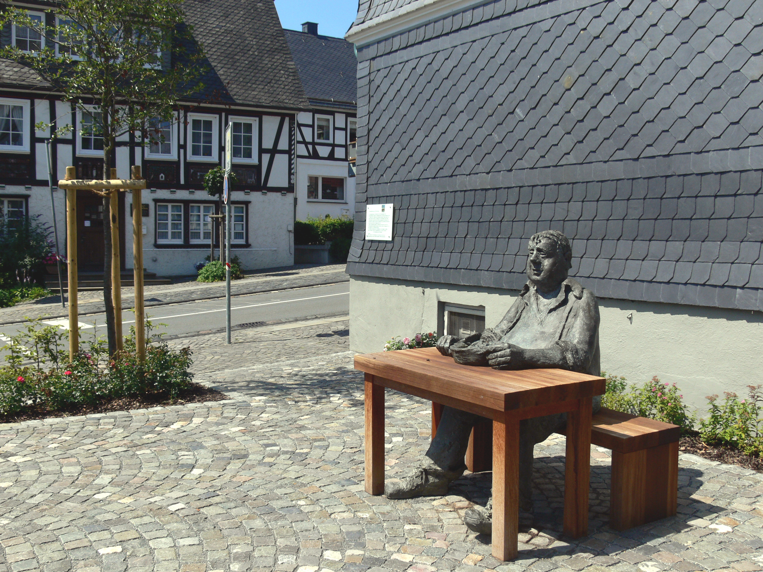 “Breybalg” is the personification of Schmallenberg.